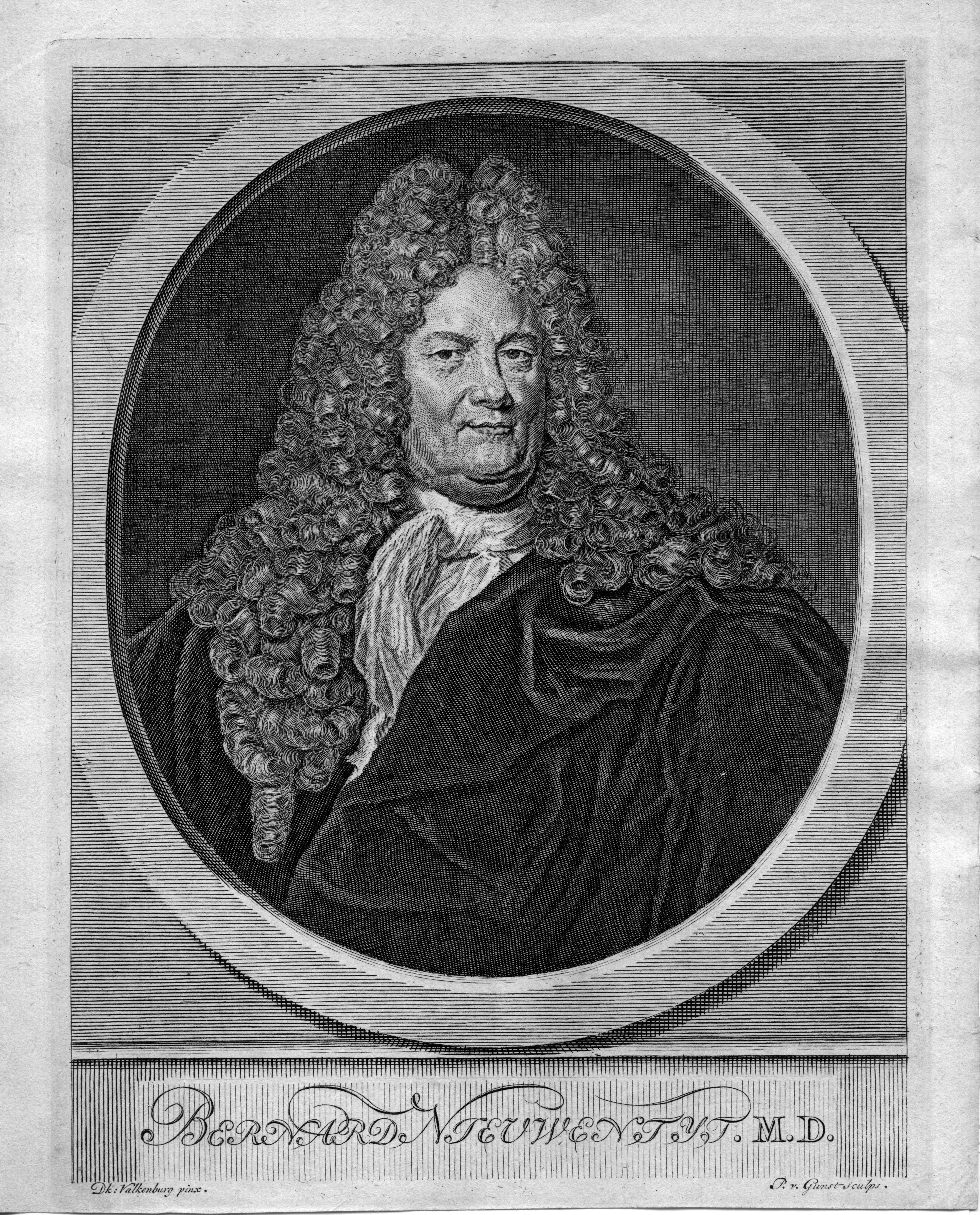 The dutch philsoph Bernard Nieuwentijt (1654-1718)